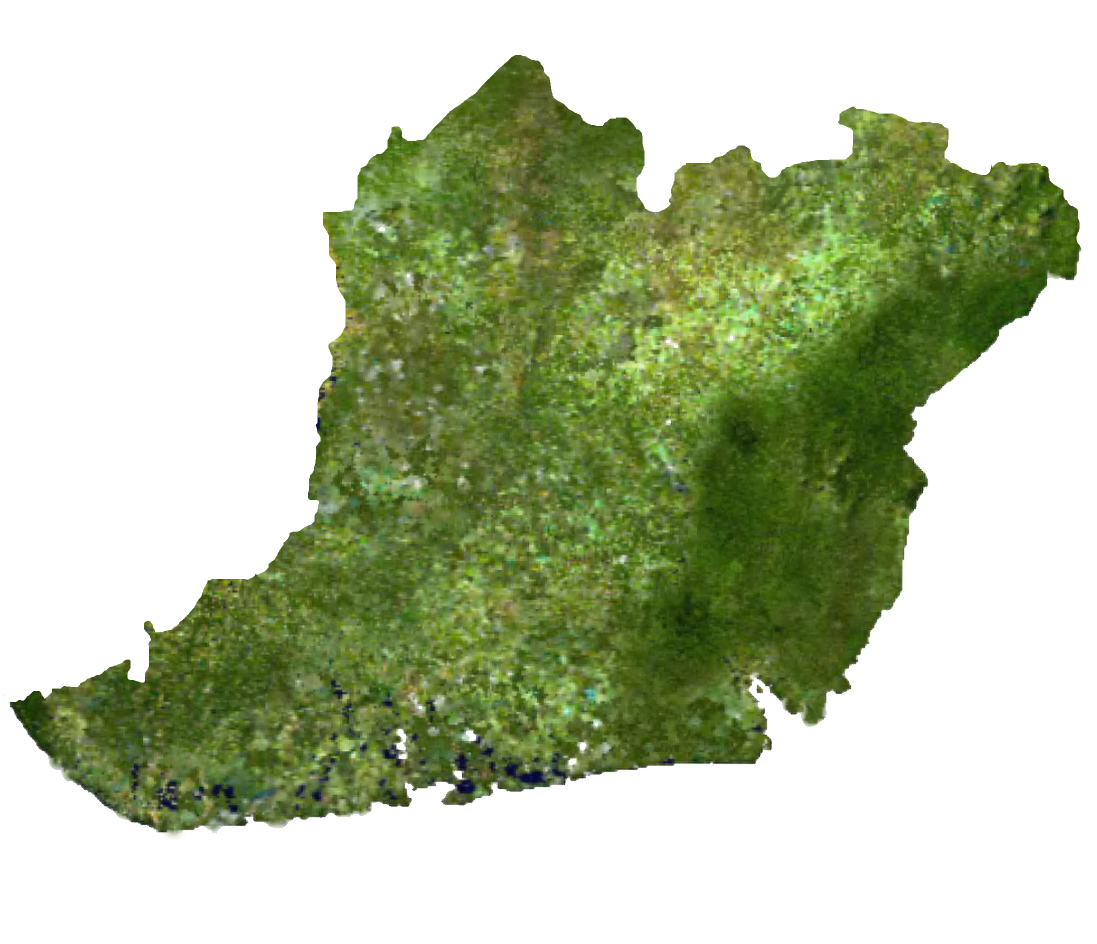 Biafra geographic image with satelite image